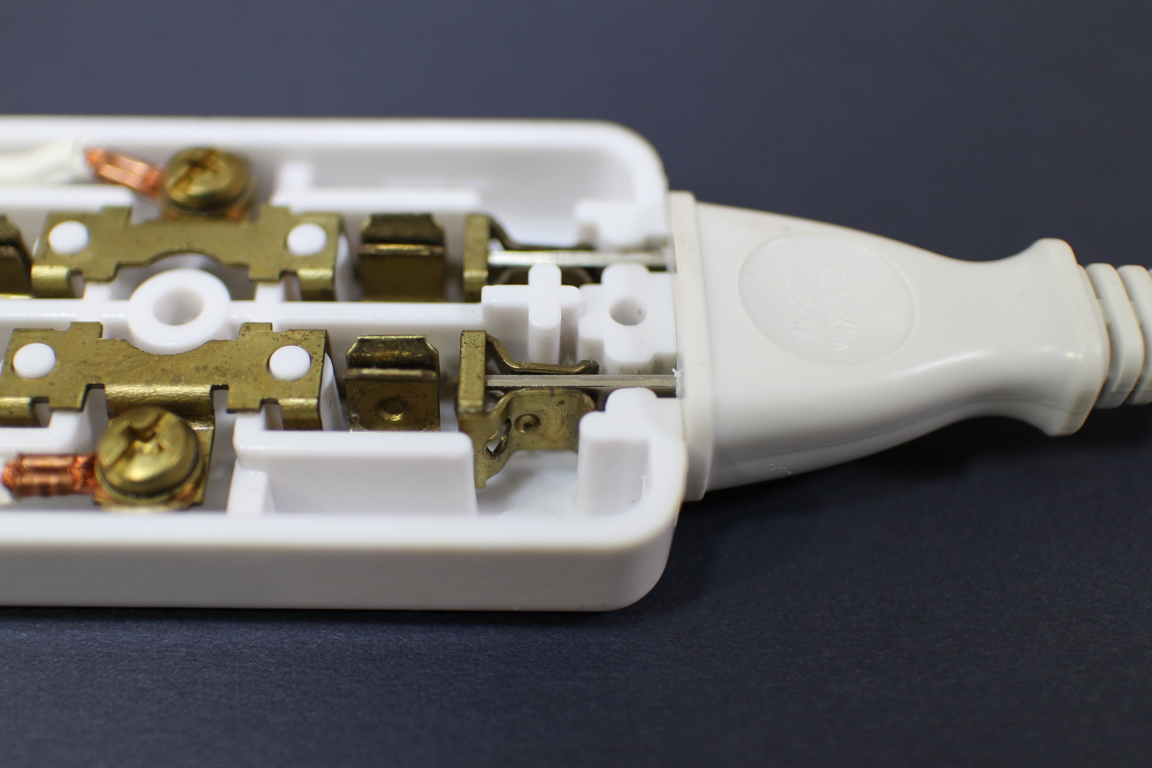 Inside of a power strip and the mechanism of holding the plug. File:Power strip of National.jpg shows the assembled condition of this.